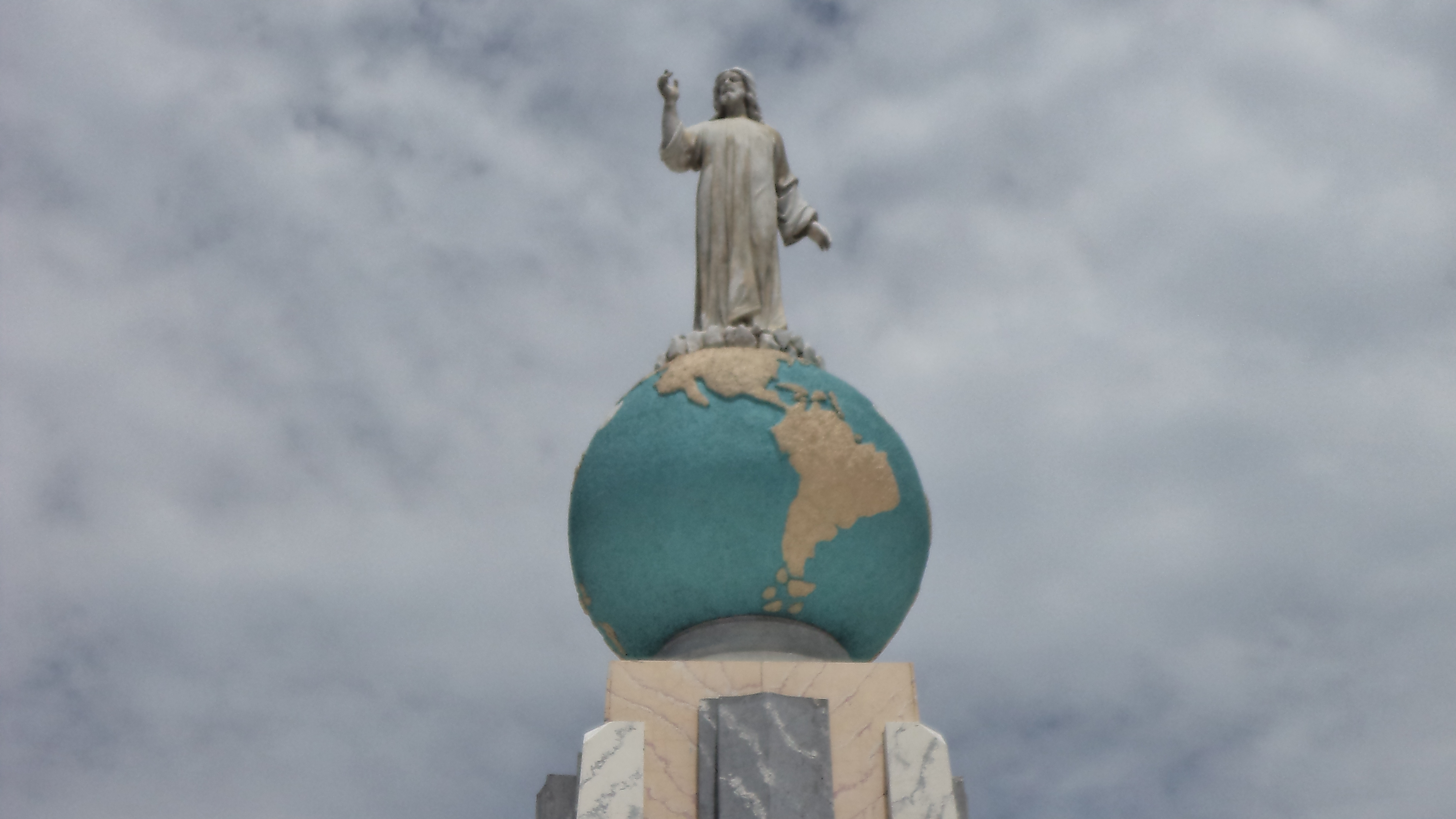 Close-up of the Monumento al Divino Salvador del Mundo (Monument to the Savior of the World) on the Plaza las Américas, San Salvador.